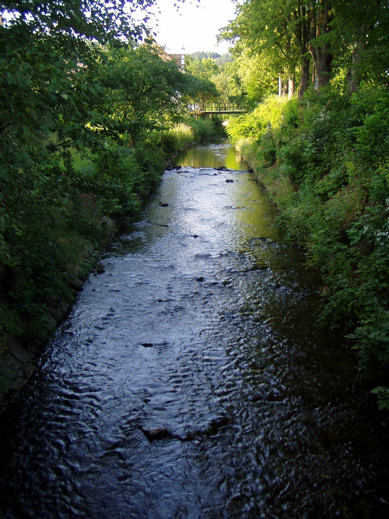 The Mohelka River as seen near town of Hodkovice nad Mohelkou, Liberec District, Czech Republic.